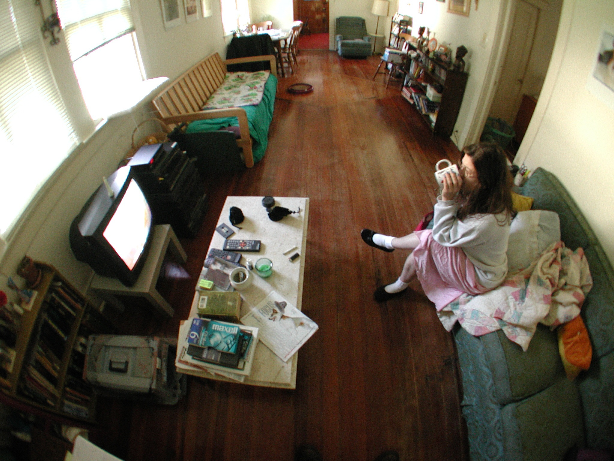 Interior of home in Uptown New Orleans, 2000